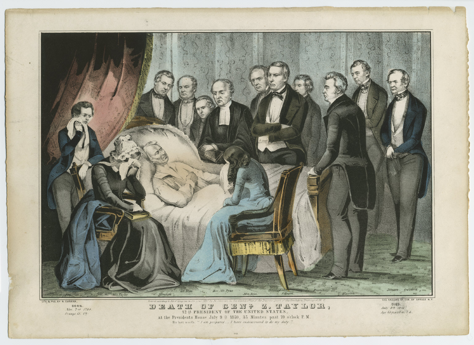 Collection: Cornell University Collection of Political Americana, Cornell University Library Repository: Susan H. Douglas Political Americana Collection, #2214 Rare & Manuscript Collections, Cornell University Library, Cornell University Title: Death of Genl. Z. Taylor, 12th President of the United States Political Party: Whig Date Made: 1850 Measurement: Print: 10 x 14 in.; 25.4 x 35.56 cm Classification: Prints Persistent URI: There are no known U.S. copyright restrictions on this image. The digital file is owned by the Cornell University Library which is making it freely available with the request that, when possible, the Library be credited as its source.